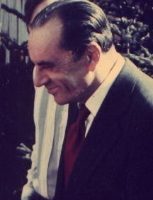 Hans Wagner